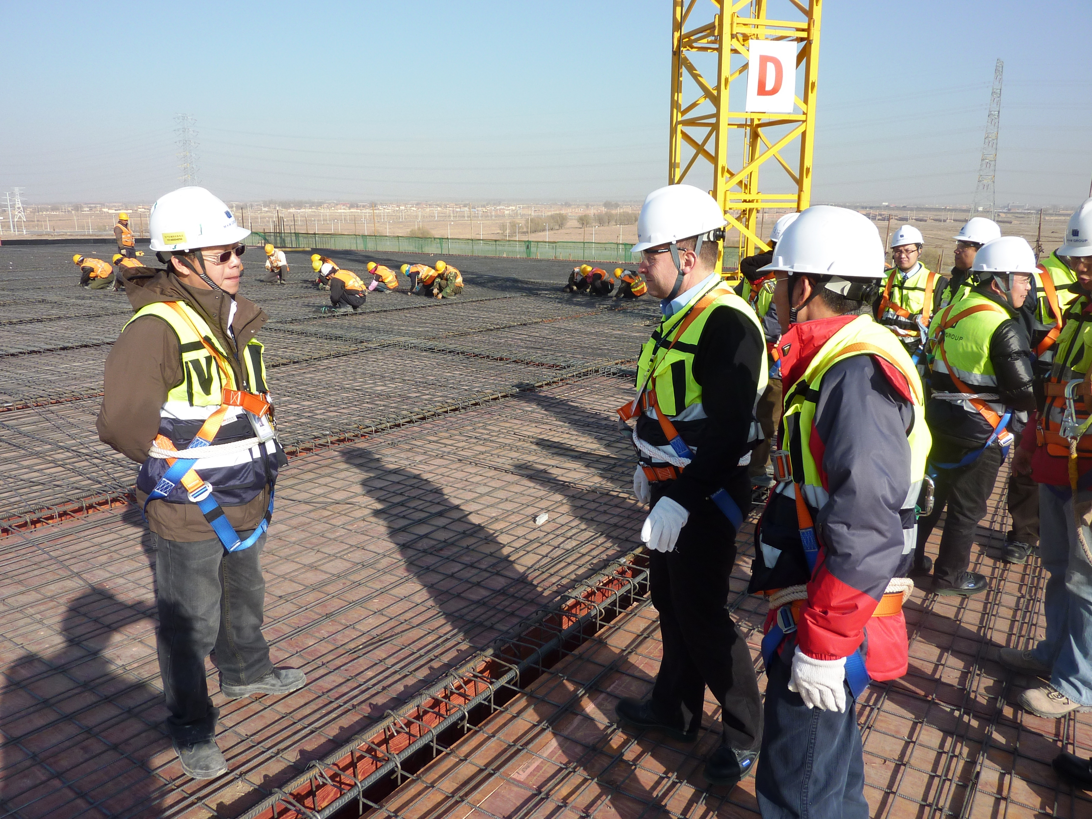 Safety equipment and instructions at a construction site of M+W Group in China